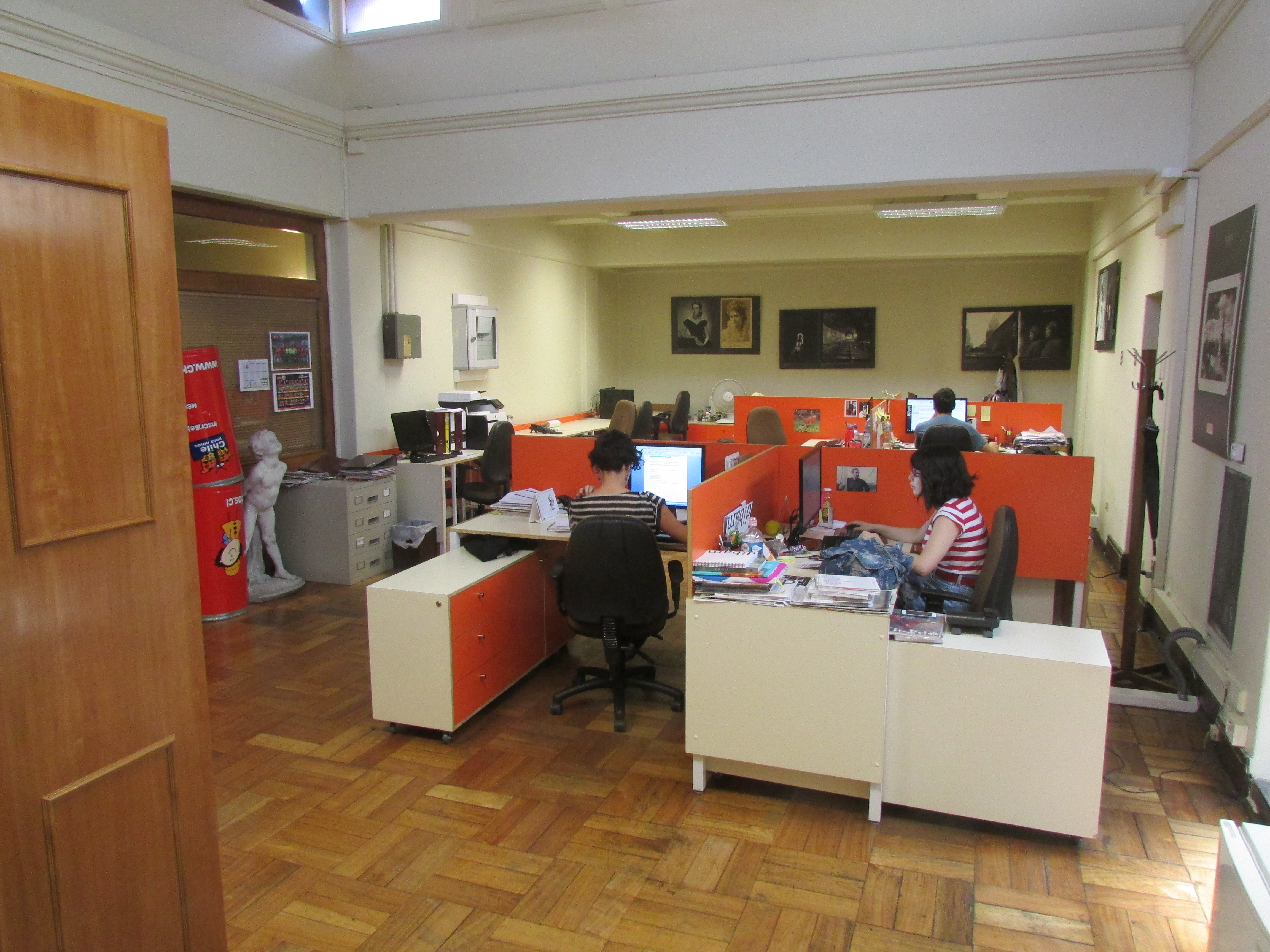 Interior view of the offices of Memoria Chilena (Chilean Memory)